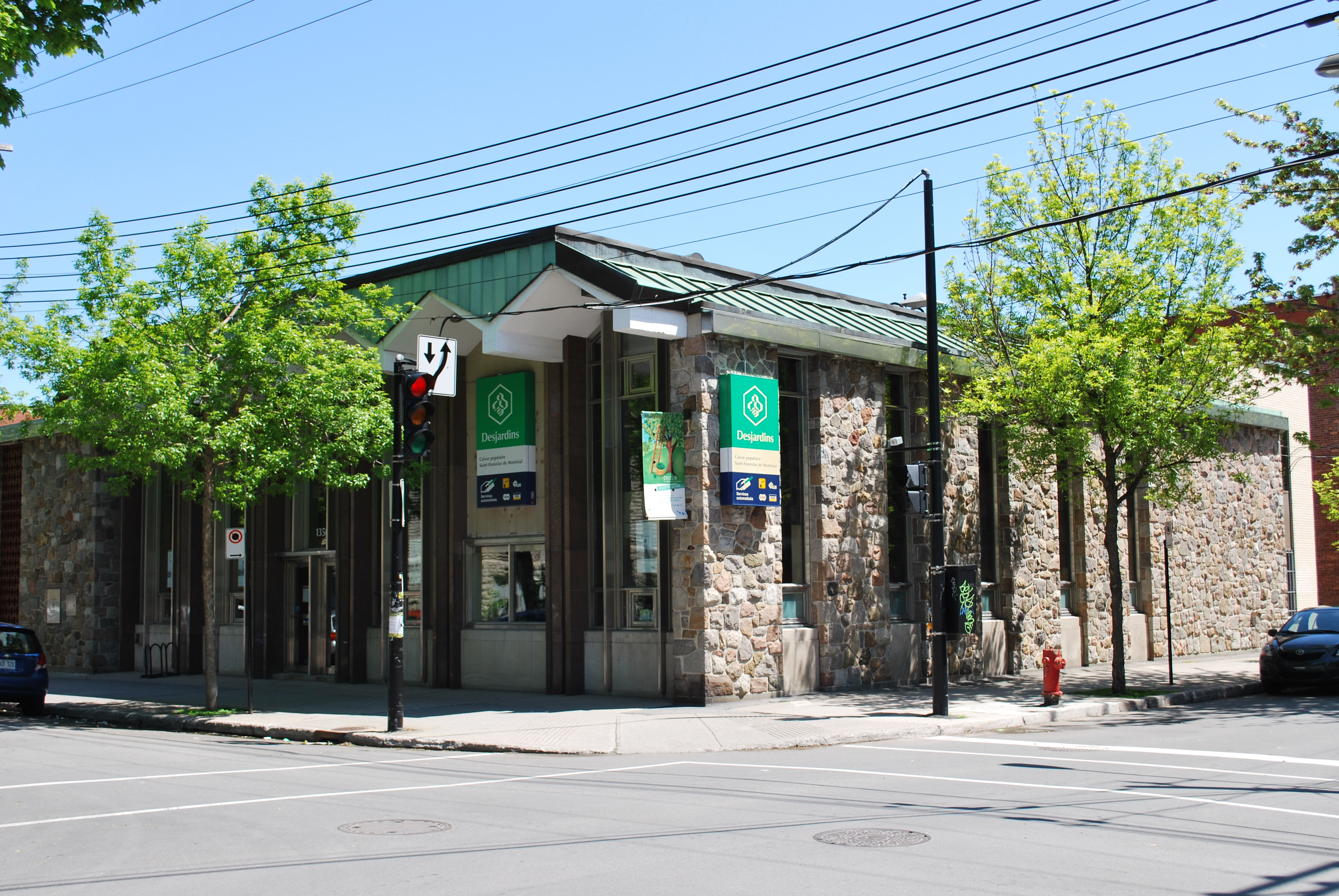 Branch of Desjardins Group on Gilford St, in the Plateau Mont-Royal area of Montreal, Quebec.